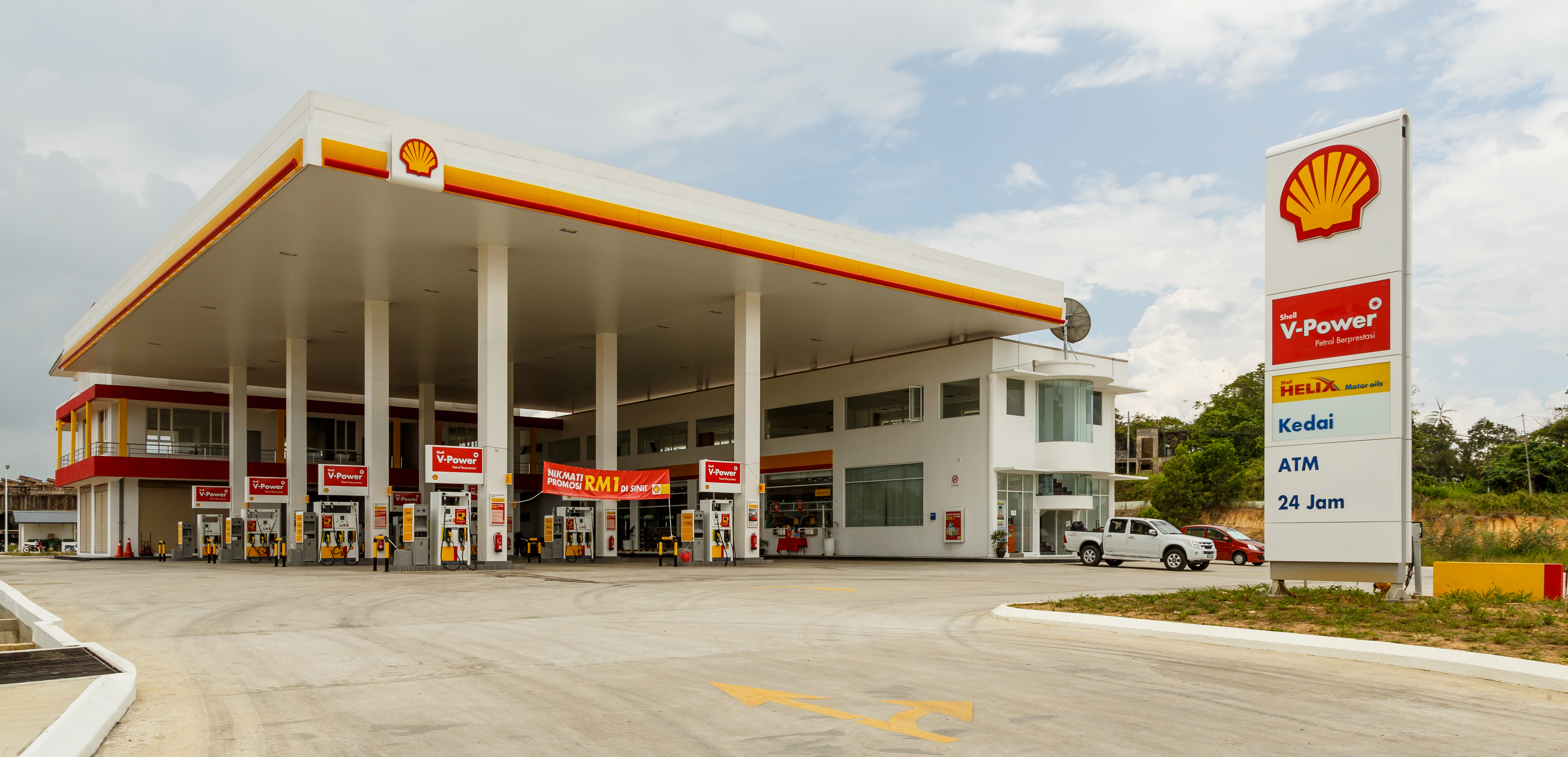 Sandakan, Sabah, Malaysia: Shell Station Labuk Road